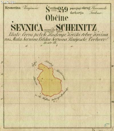 ŠEVNICA kataster